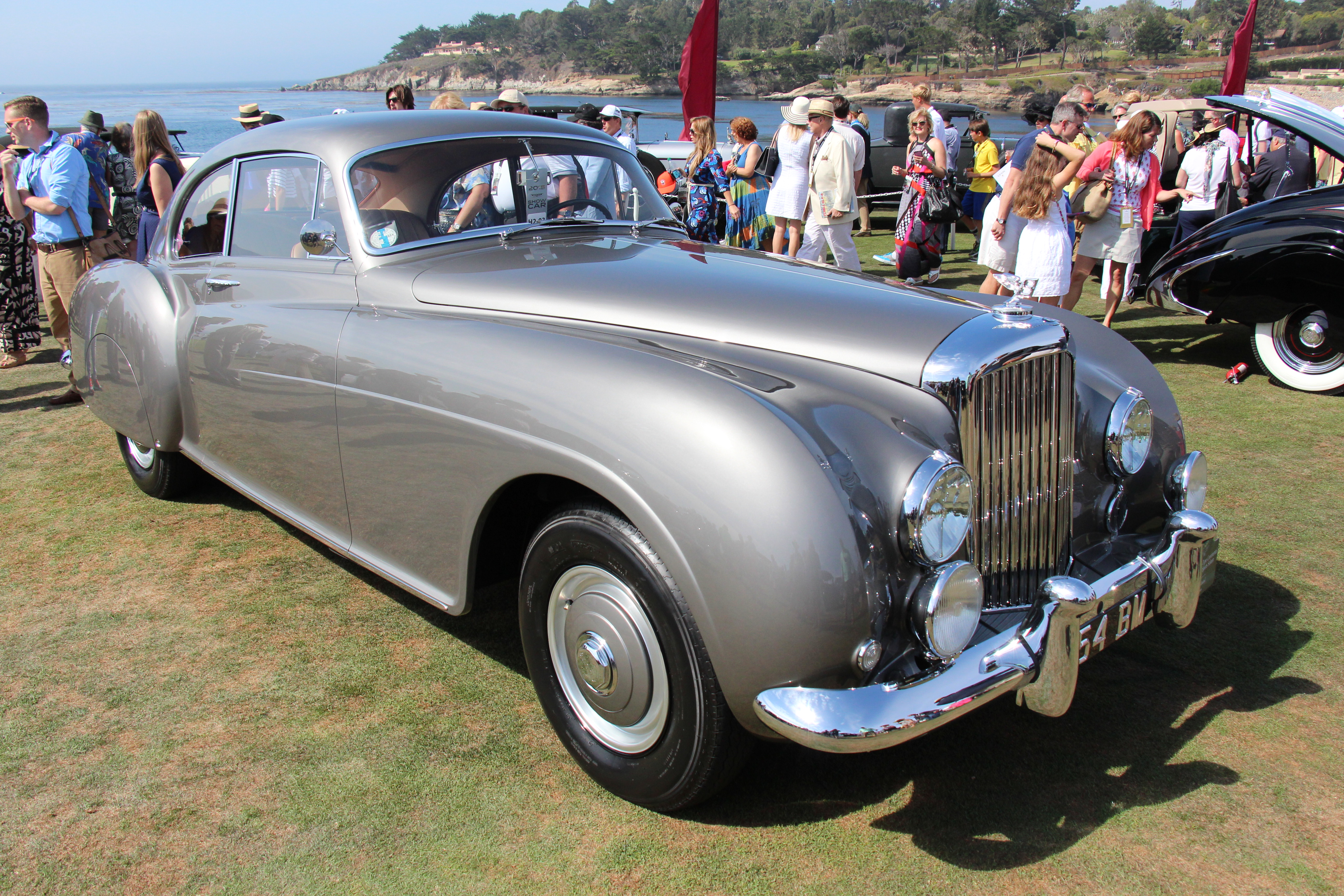 The R Type is the second series of post-war Bentley automobiles, replacing the Mark VI. Essentially a larger-boot version of the Mk VI. The R-Type Continental was a high-performance version of the R-Type. They had essentially the same engine as the standard R Type, but with modified carburation, induction and exhaust manifolds along with higher gear ratios. It was the fastest four-seat car in production at the time. 208 R-Type Continentals were made, coachwork for 193 of these cars was completed by H. J. Mulliner and Co. who mainly built them in fastback coupe form, this car is one of those. Engine; 280 cu in 6 cyl Photographed at the 2015 Pebble Beach Concours d'Elegance